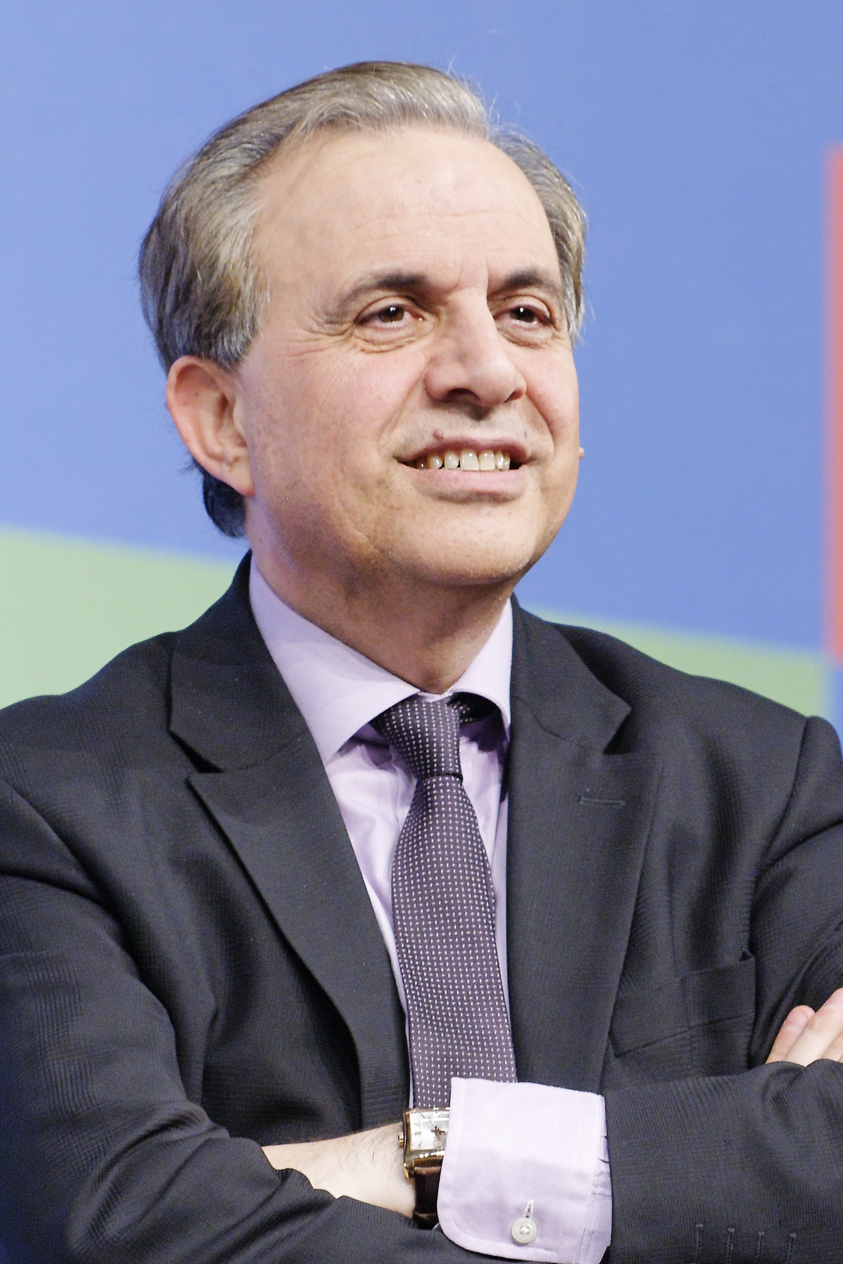 Roger Karoutchi at a UMP rally for the 2010 French regional elections campaign in Issy-les-Moulineaux.